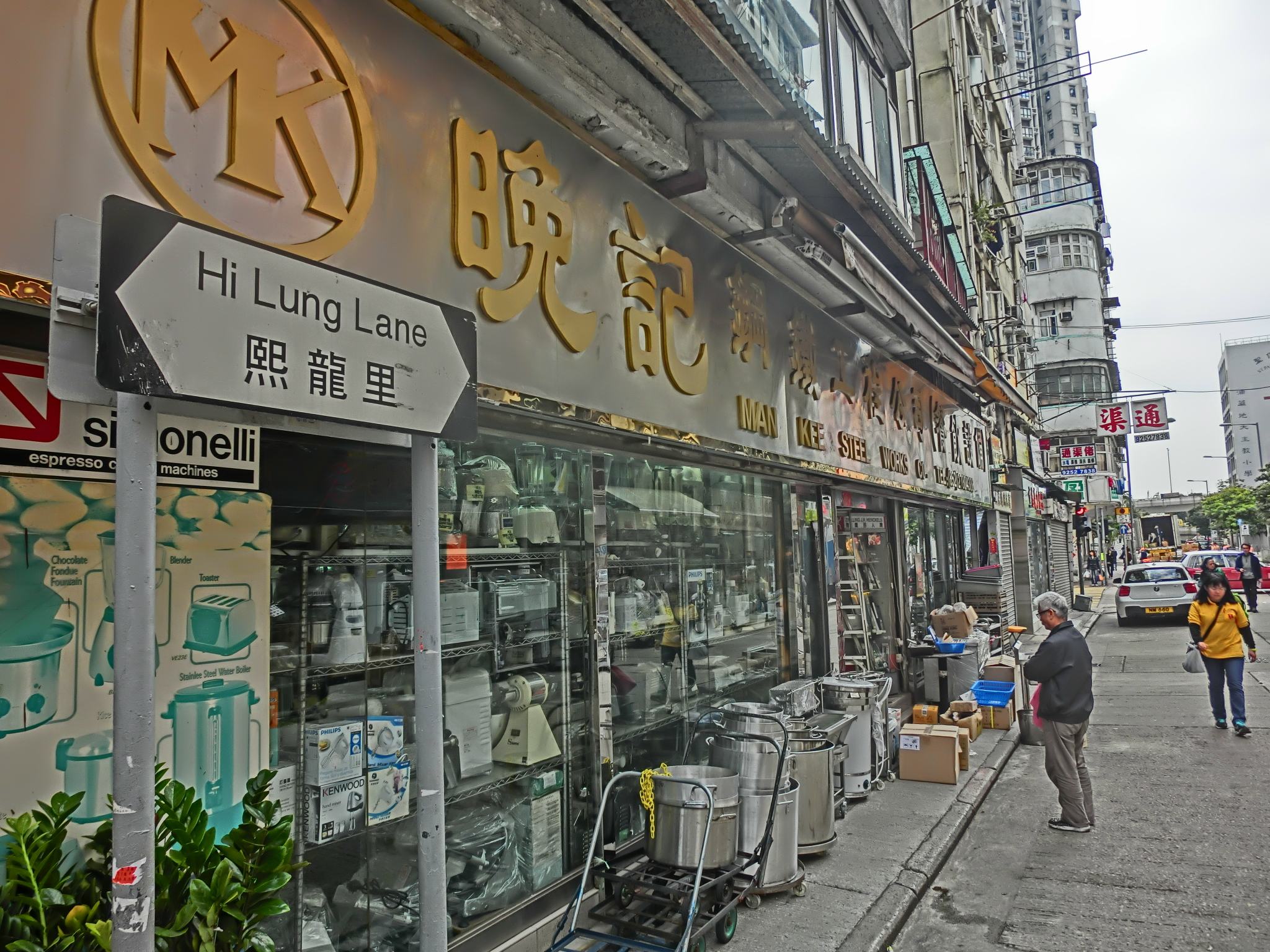 New Very Good Tailor shop in Arthur Street, Yau Ma Tei, Hong Kong